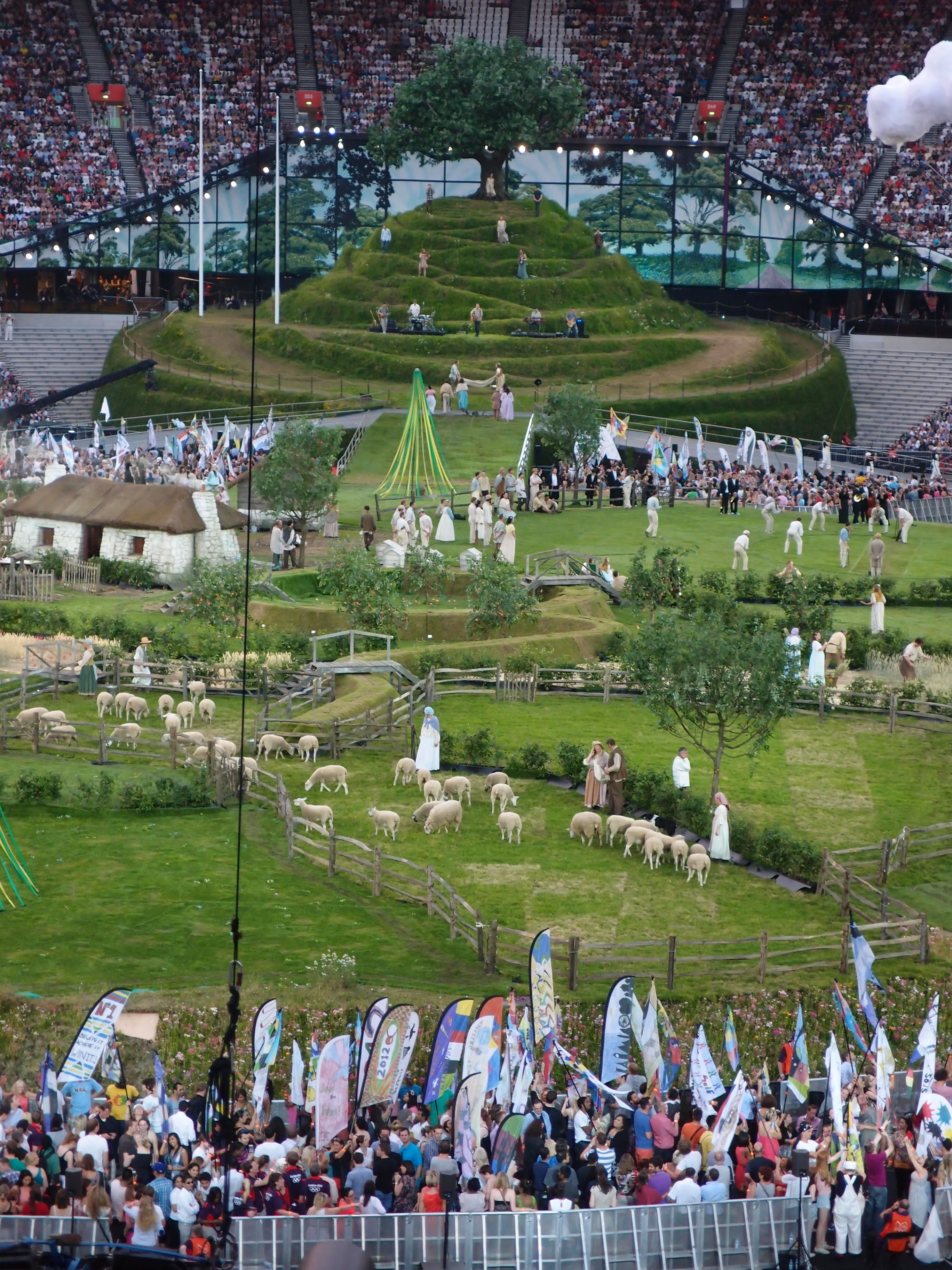 2012 Summer Olympics opening ceremony